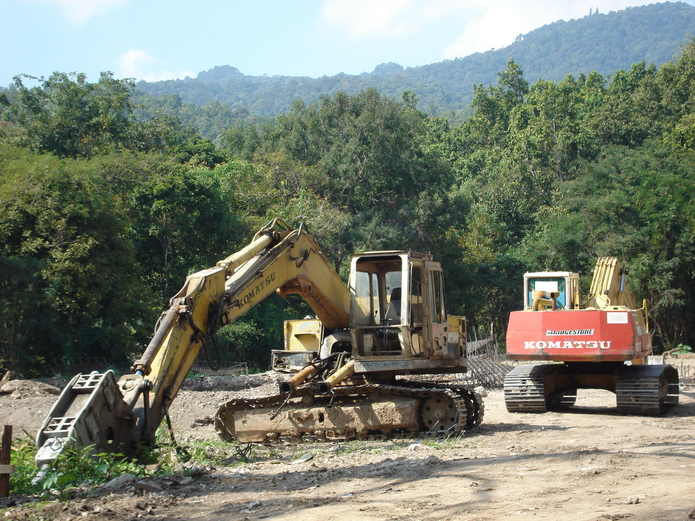 two Komatsu excavators-- Chiangmai, Thailand